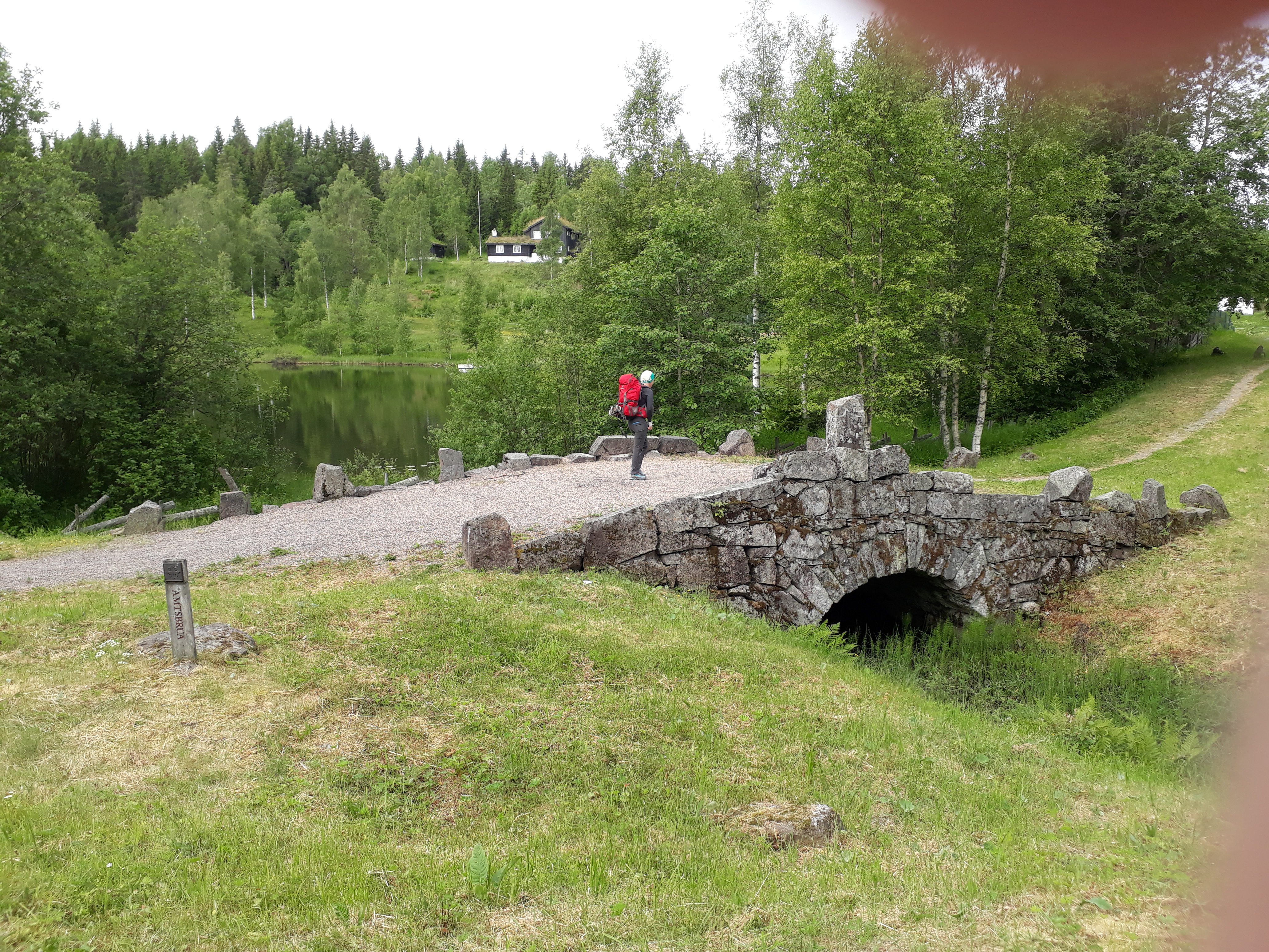 Langebro